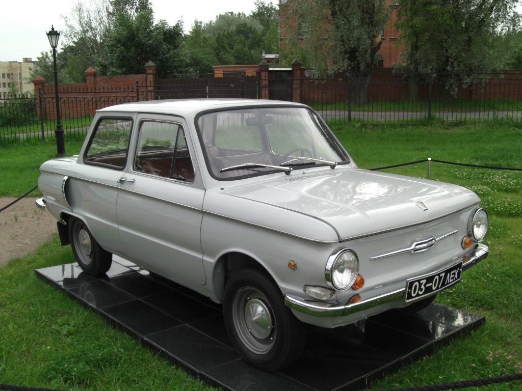 the first car of Vladimir Putin